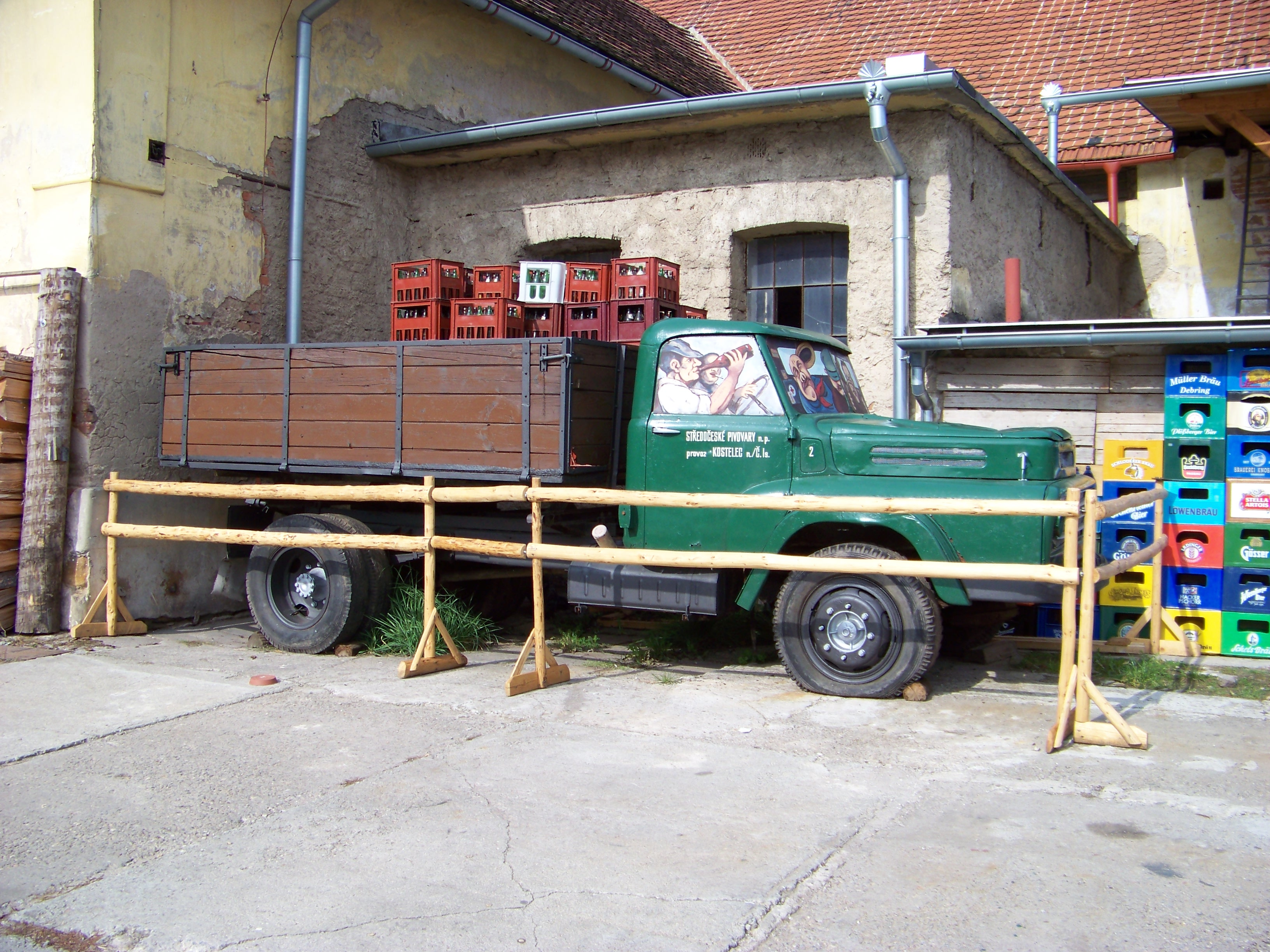 Kostelec nad Černými lesy, Prague-East District, Central Bohemian Region, the Czech Republic. The brewery, an old brewery truck.